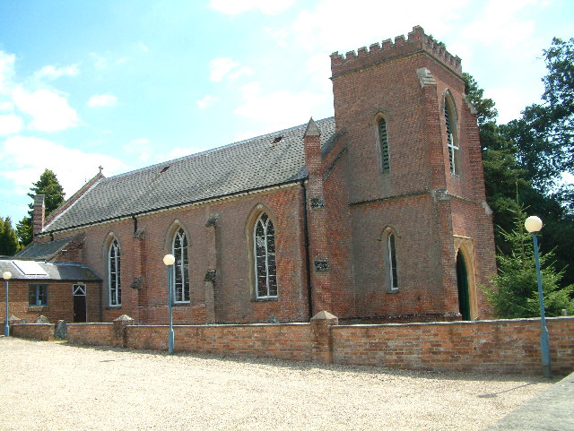 Parish church of St Mary the Virgin, Bransgore, Hampshire, seen from the north